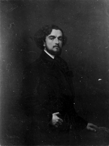 Theodor Aman